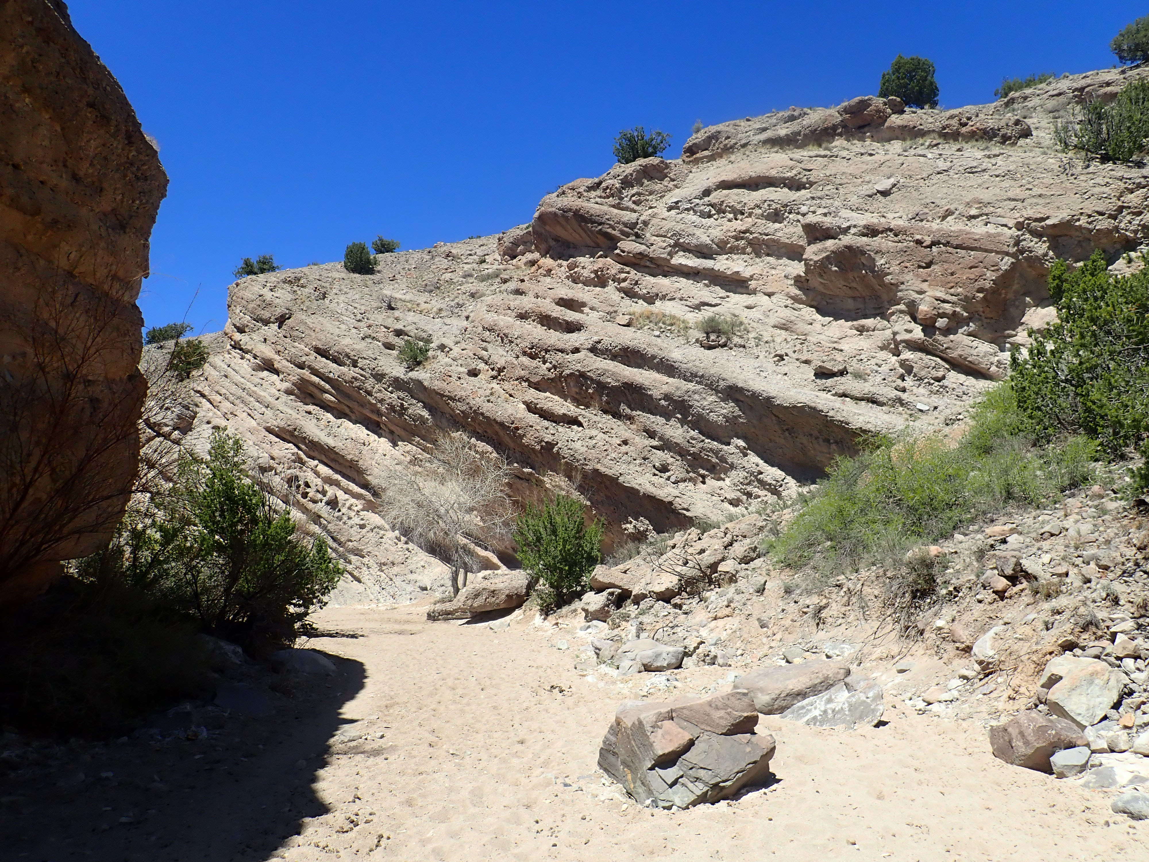 This photograph shows volcaniclastics beds of the Eocene-Oligocene Espinaso Formation, which record volcanic activity in the nearby Ortiz Mountains. The exposure here is in Arroyo del Tuerto, which cuts through Espinaso Ridge and defines the type section of the formation.